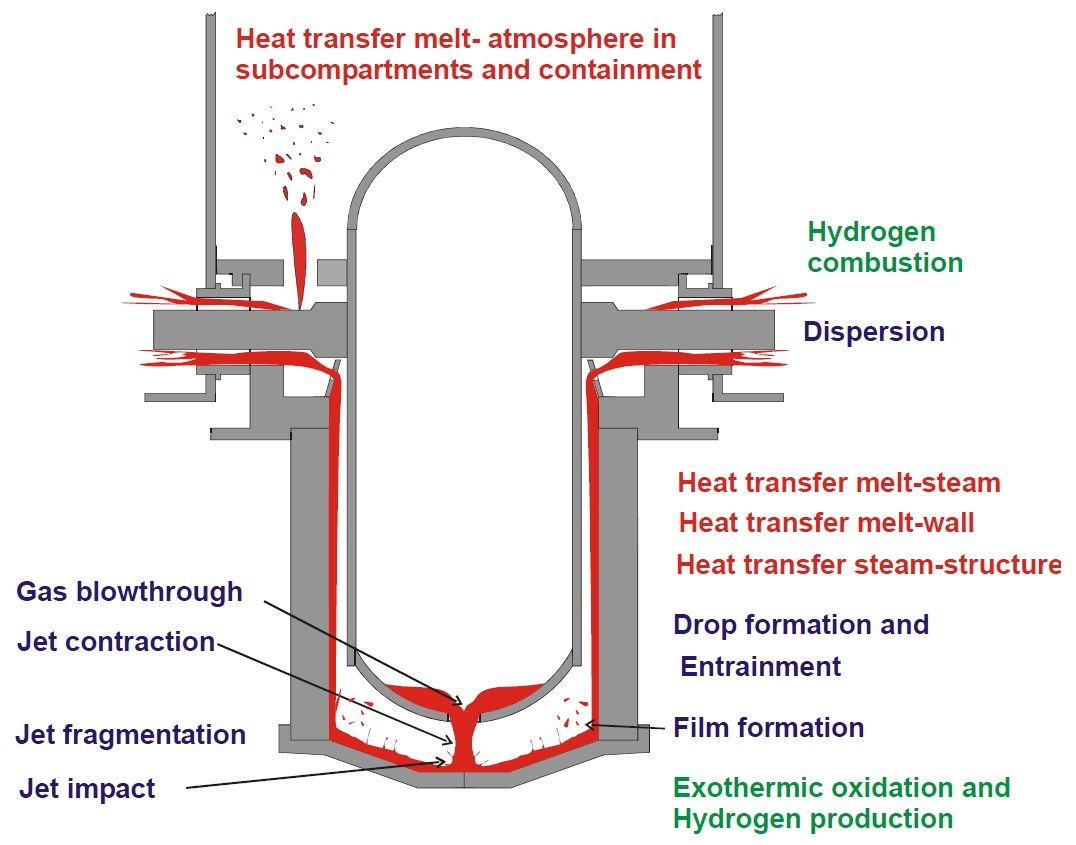 sketch showing the effects of a high pressure core melt in EPR